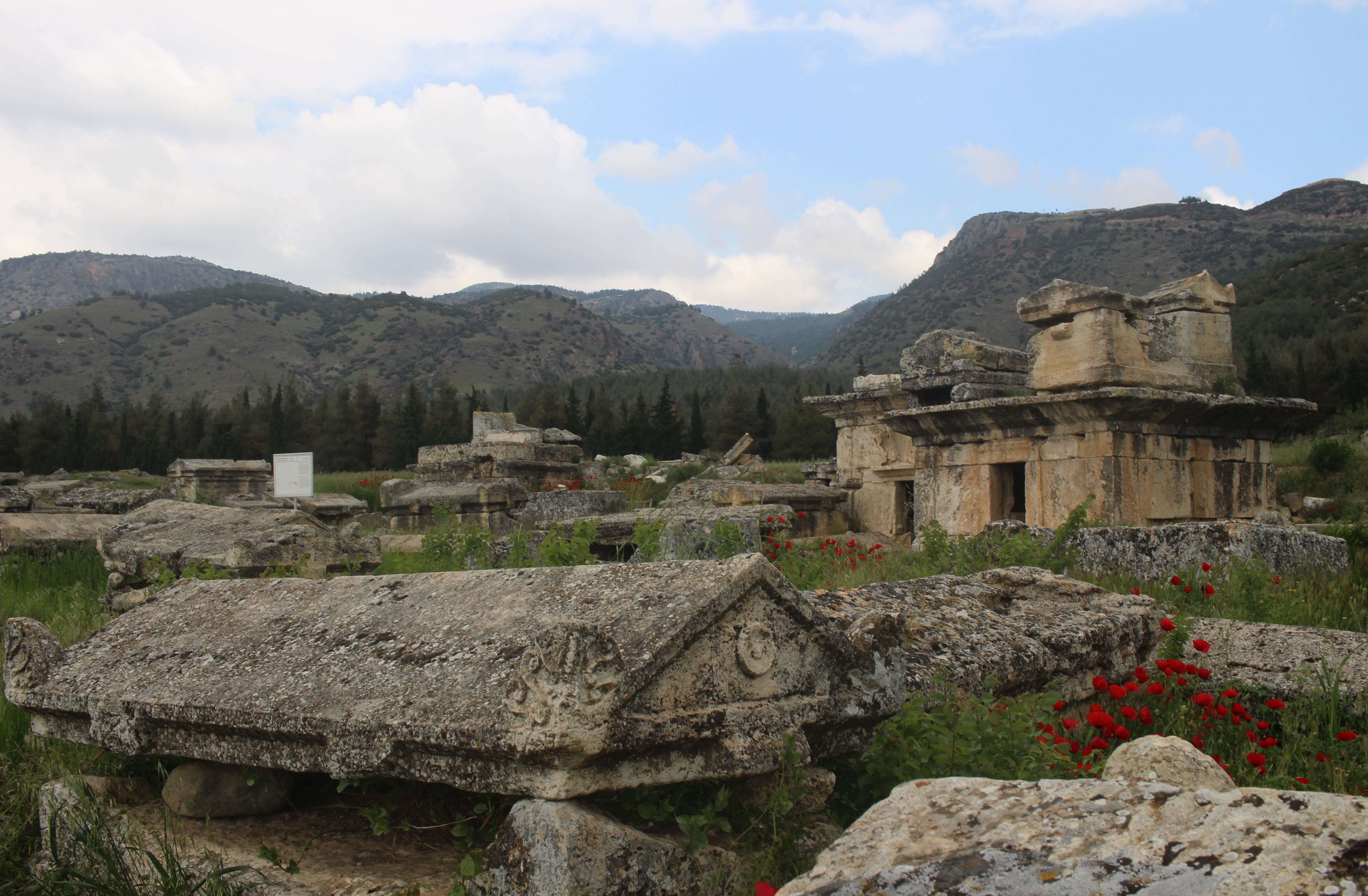 Necropolis in Hierapolis